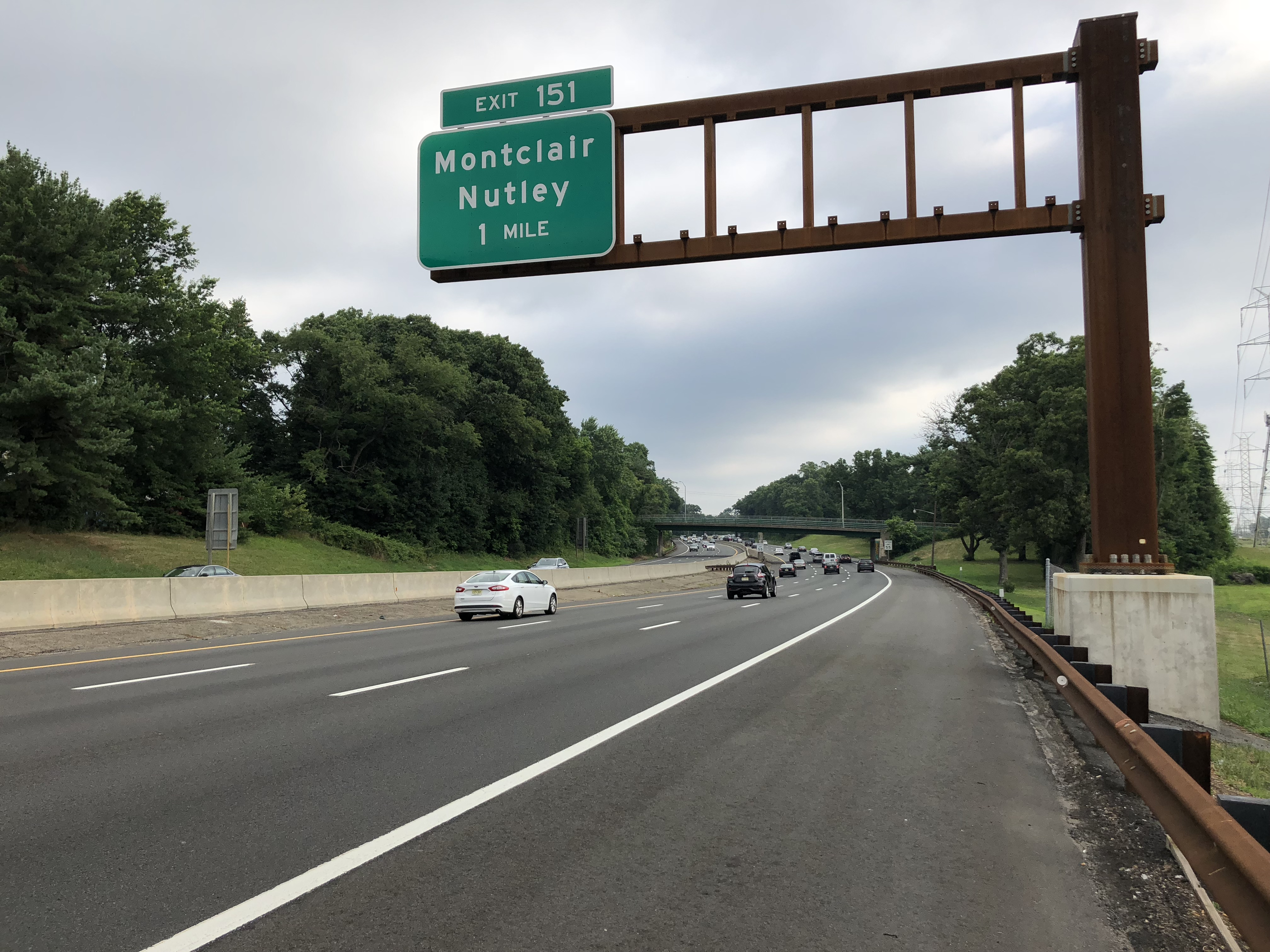 View north along New Jersey State Route 444 (Garden State Parkway) between Exit 150 and Exit 151 in Nutley Township, Essex County, New Jersey